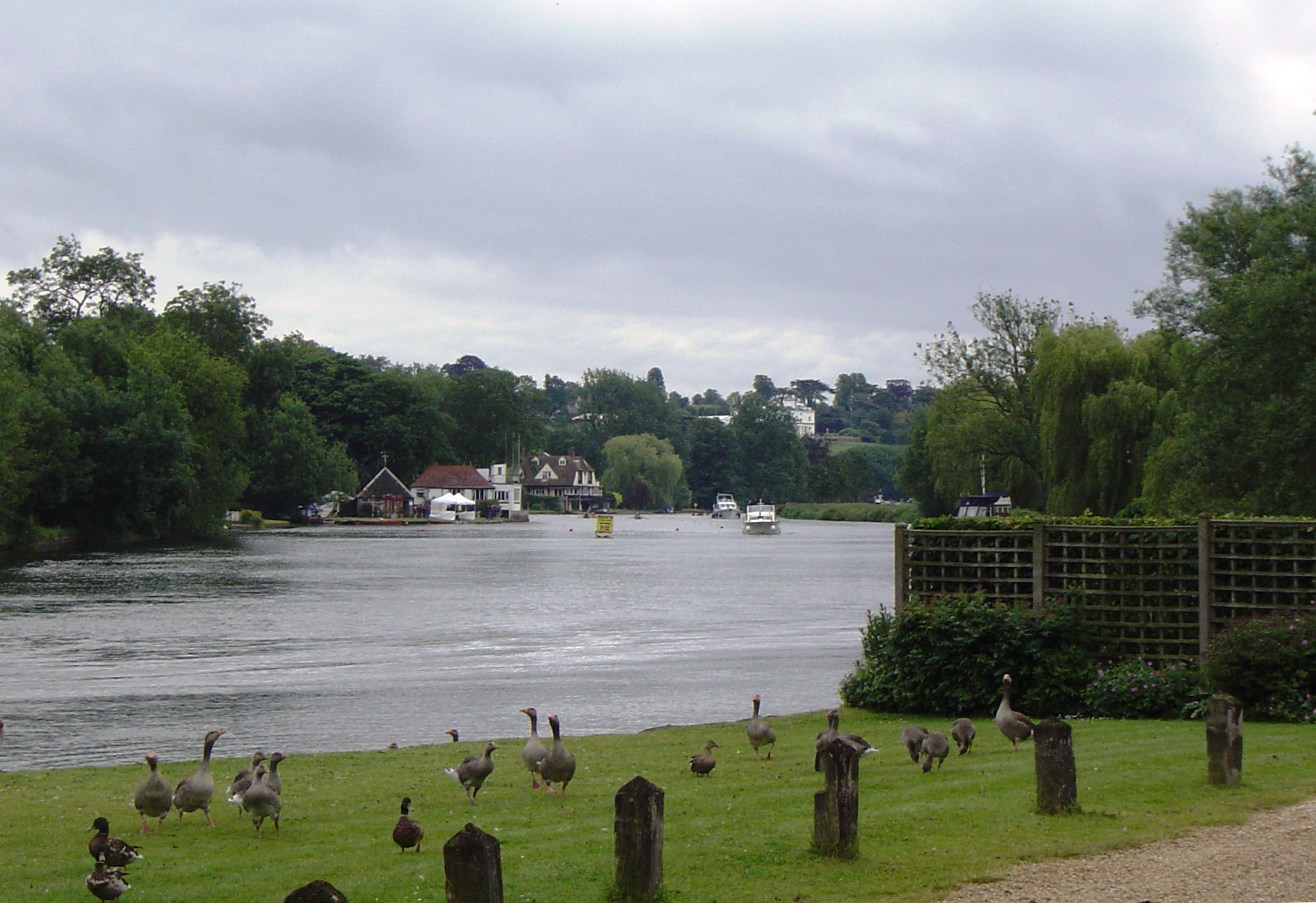 River Thames at Shiplake, looking towards Wargrave